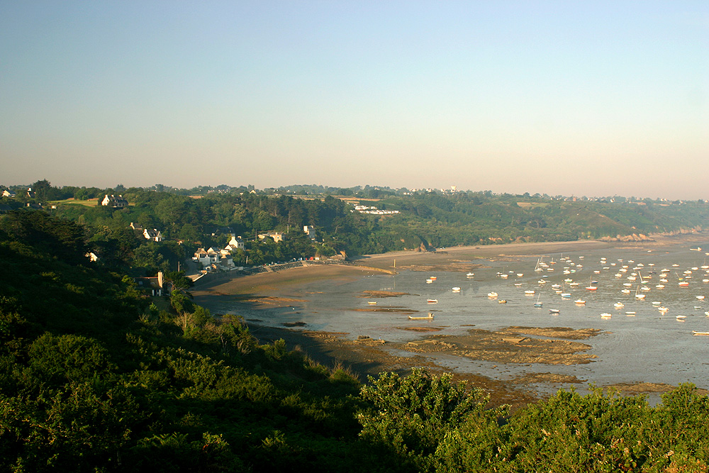 Plouézec, view over Port Lazo from the GR34 trekking path at Bilfot on the Pointe de Plouézec.